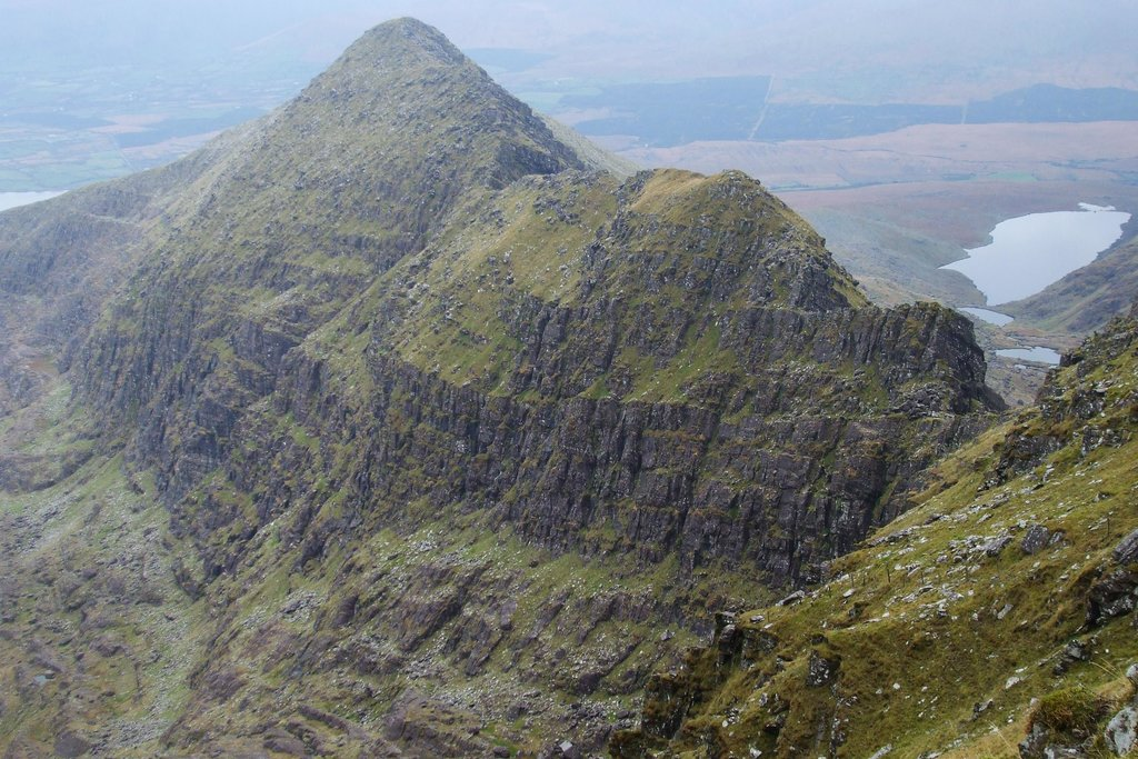 Photograph of Faha ridge from Brandon North Top